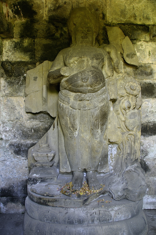 Candi Singosari, Singosari, Malang, Jawa Timur